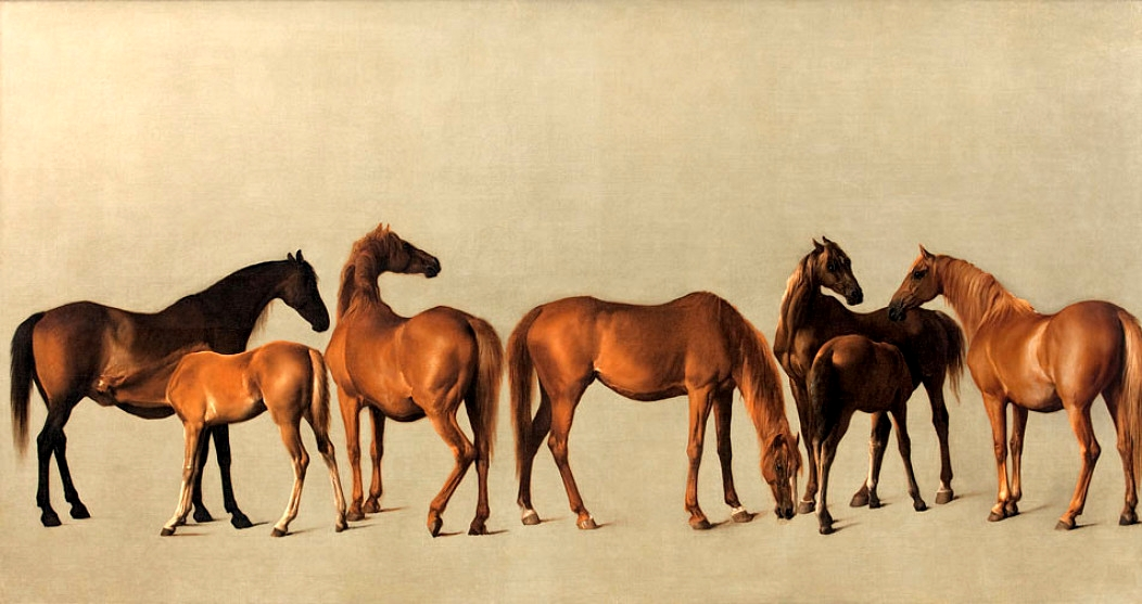 Mares and Foals without a Background. Oil on canvas. 39/75 in (99/190.5 cm). Private Collection.